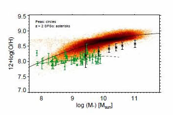 This is a graph taken as a screenshot taken from a publication on . The author of this publication, Ricardo Amorin, has given me permission to use it and as an arXiv publication it is available for free use under Creative Commons Attribution-Noncommercial-ShareAlike license ( The screenshot was edited by Richard Nowell who has uploaded it for use in the article entitled Pea Galaxy. R.Amorin's email is: .Richard Nowell (talk) 11:46, 9 June 2011 (UTC)